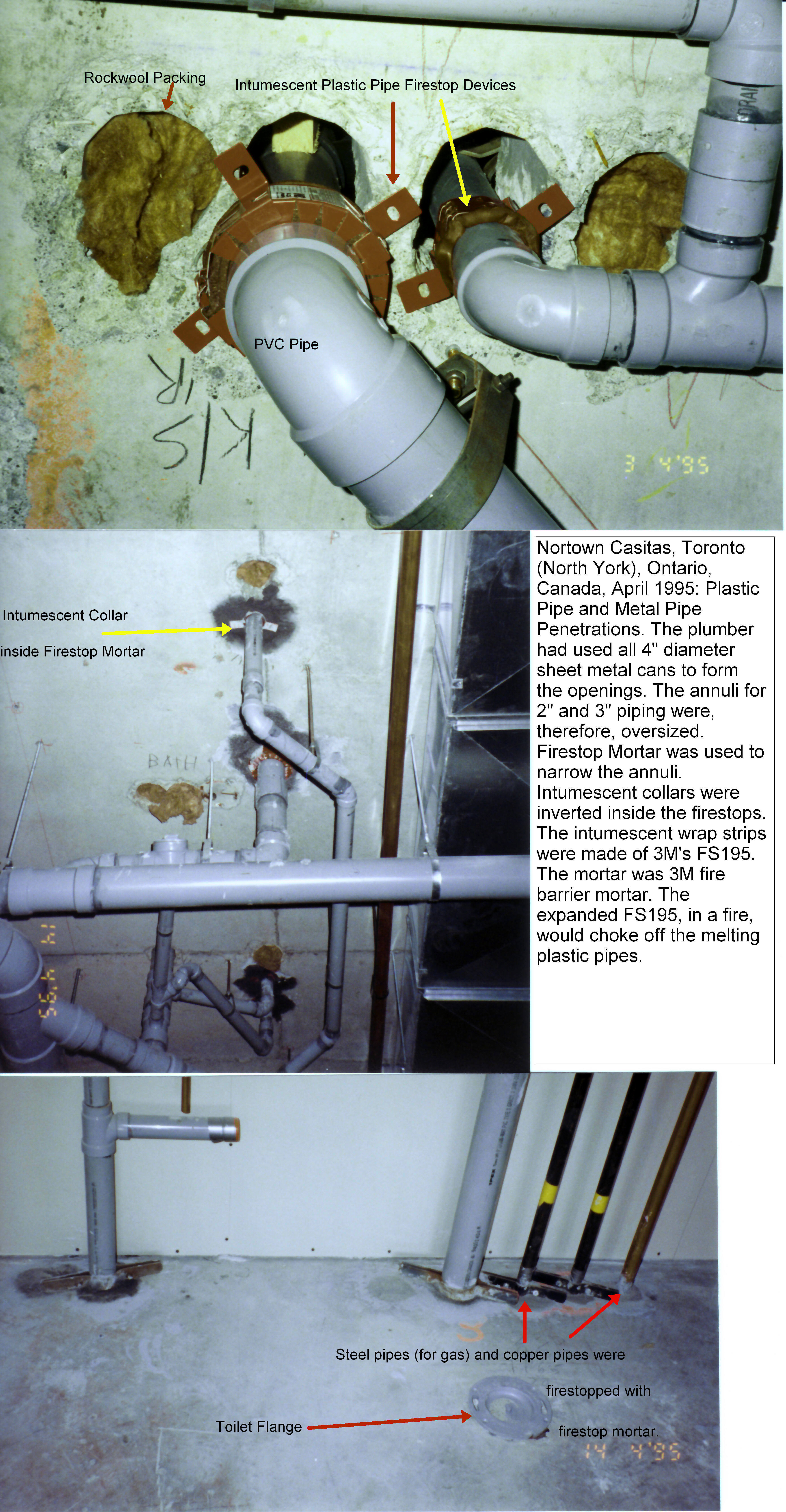 Nortown Casitas, Toronto (North York), Ontario, Canada, April 1995: Plastic Pipe and Metal Pipe Penetrations being firestopped. The plumber had used all 4" diameter sheet metal cans to form the openings. The annuli for 2" and 3" piping were, therefore, oversized. Firestop Mortar was used to narrow the annuli. Intumescent collars were inverted inside the firestops. The intumescent wrap strips were made of 3M's FS195. The mortar was 3M Fire Barrier Mortar. The expanded FS195, in a fire, would choke off the melting plastic pipes. Metallic pipes were firestopped with firestop mortar.